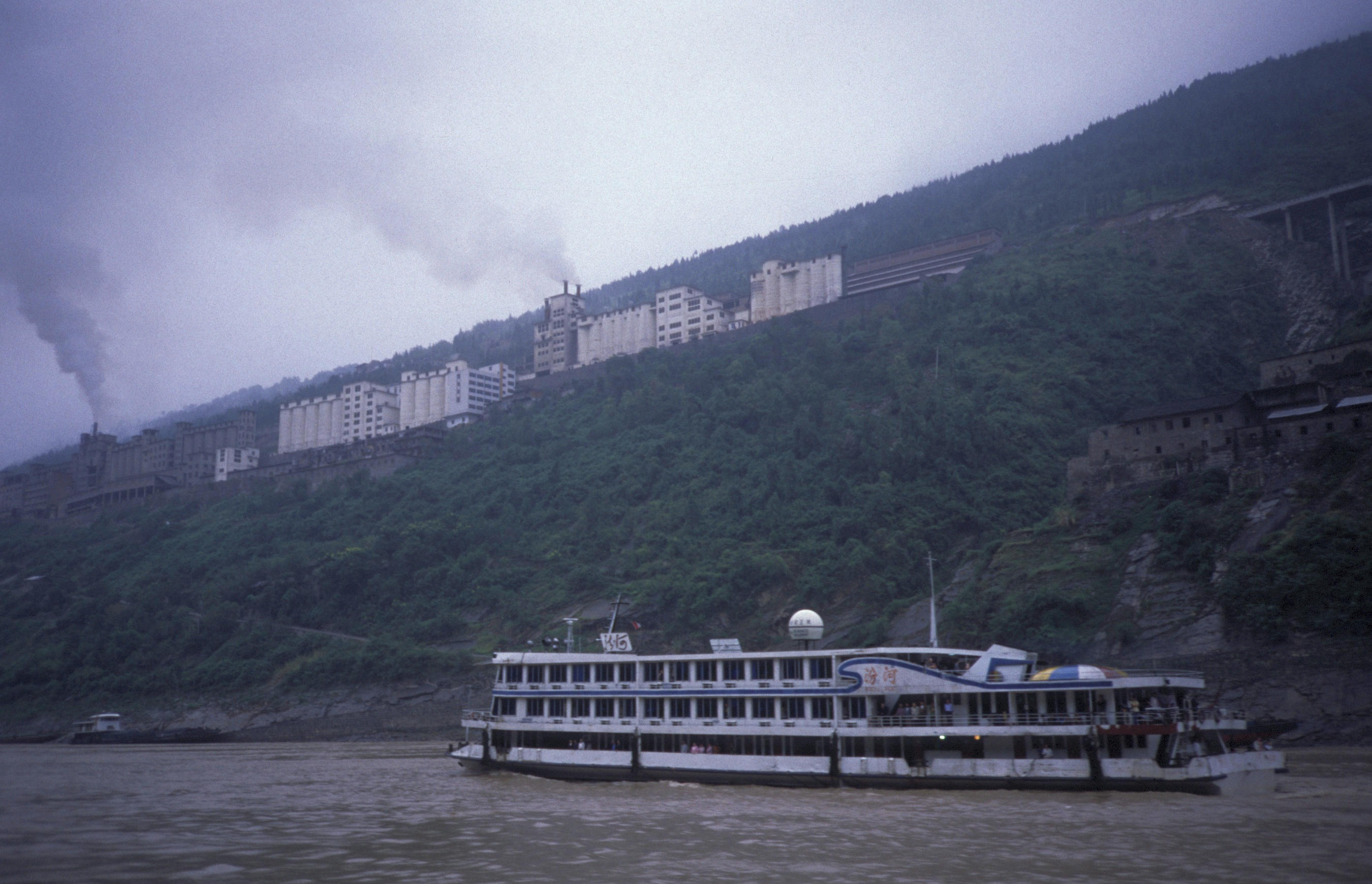 Factories in Badong in Hubei Province, China